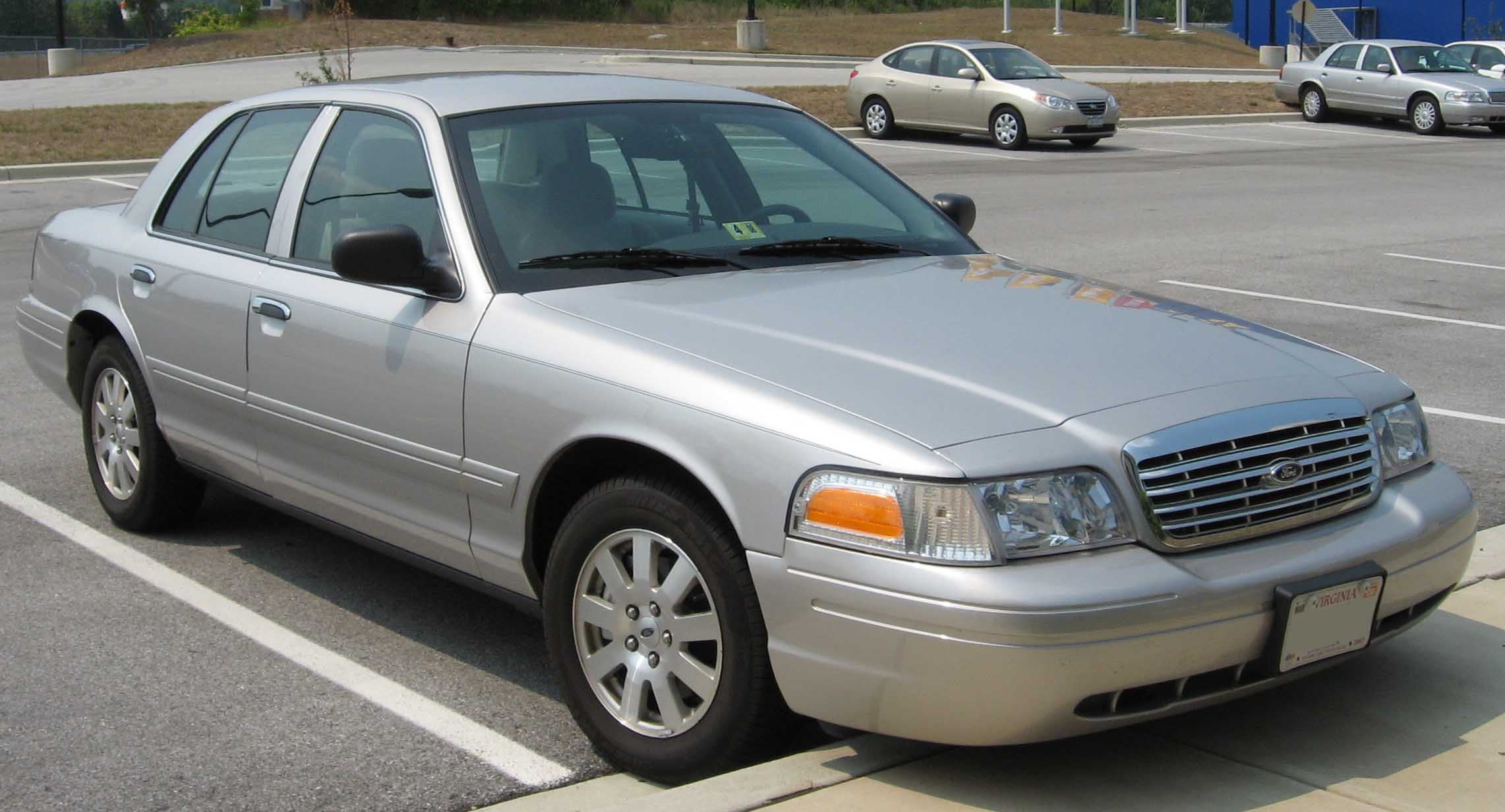 1998-2007 Ford Crown Victoria photographed in College Park, Maryland, USA.